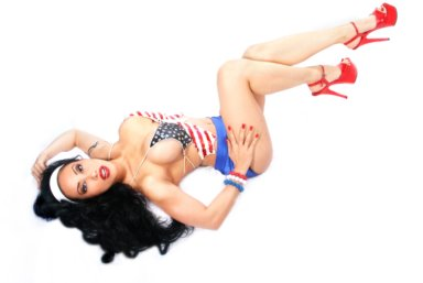 Philippine-American actress Mimi Miyagi.